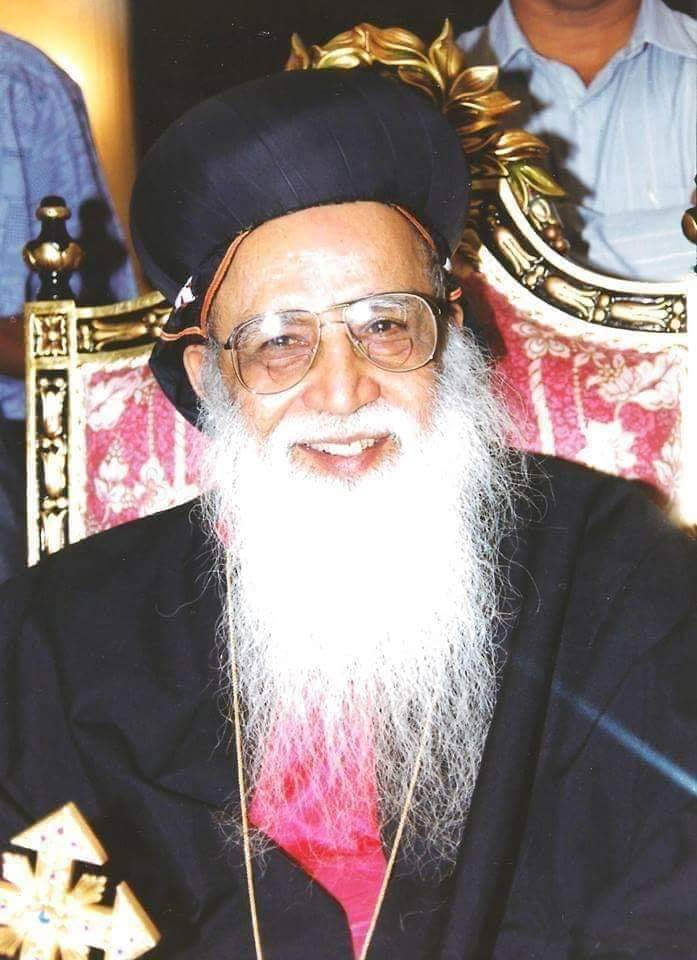 Catholicos of the East and Malankara Metropolitan